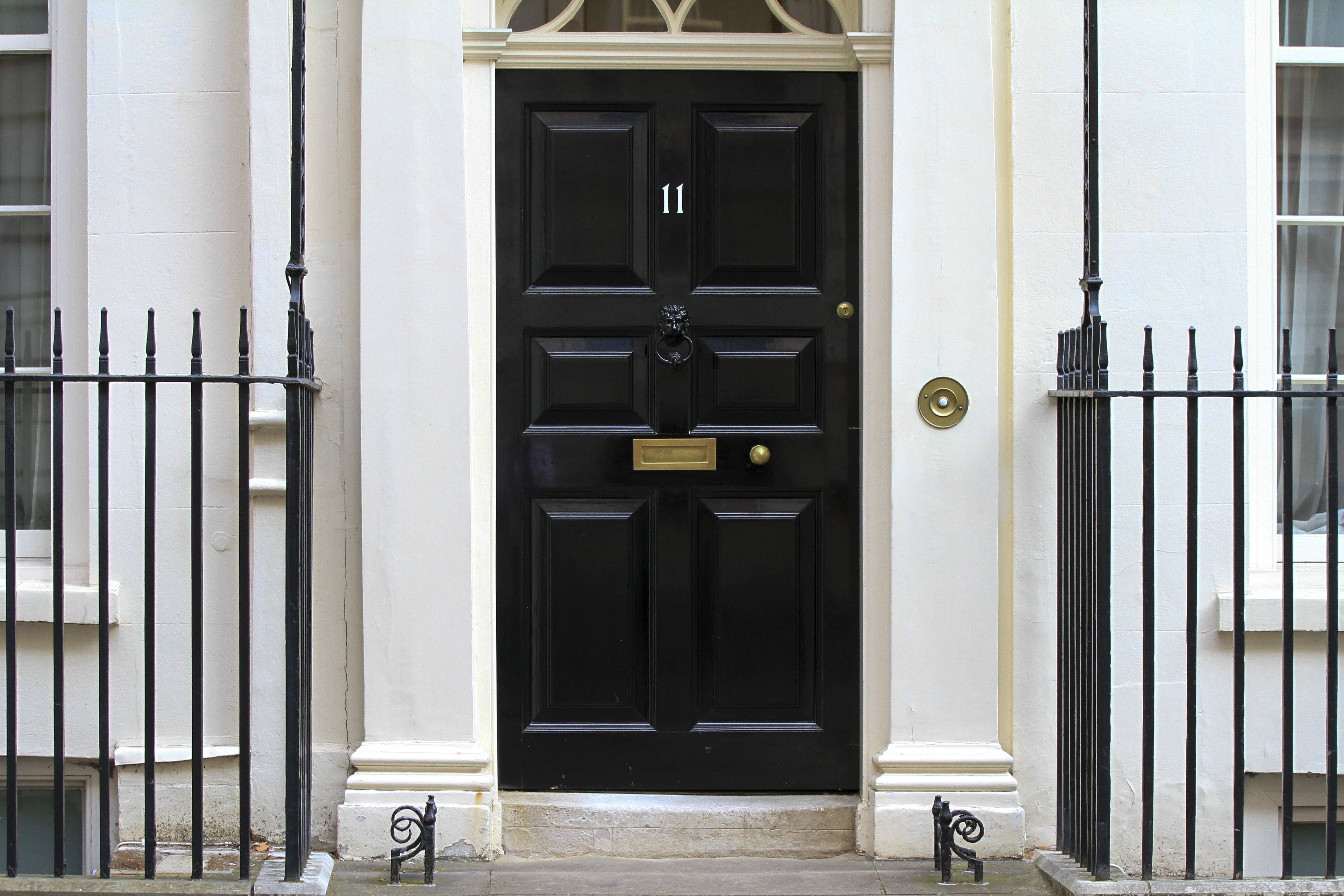 During his first full week in office Ambassador Robert Johnson met Chancellor Philip Hammond at Number 11 Downing Street.